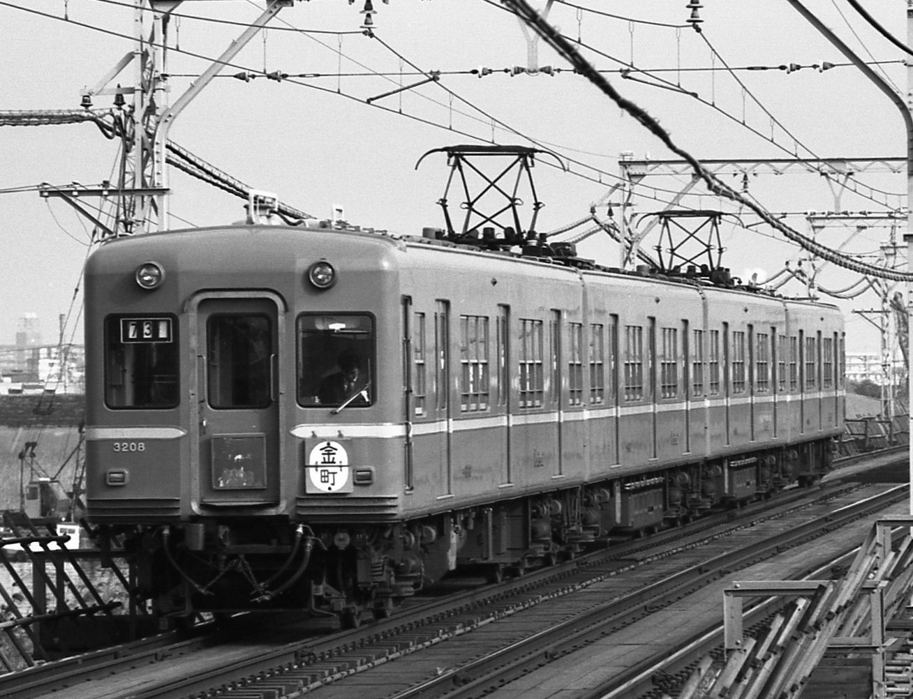 Keisei 3208 on the bridge over Arakawa